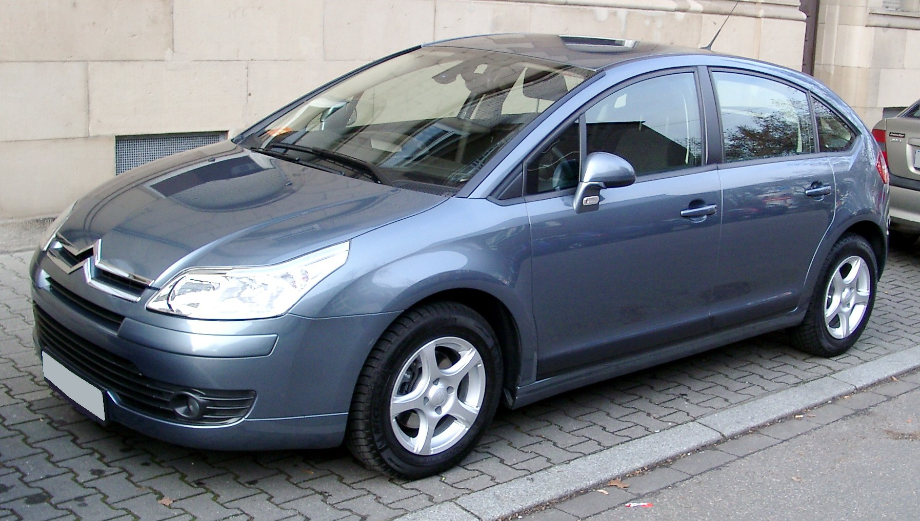 Citroën C4